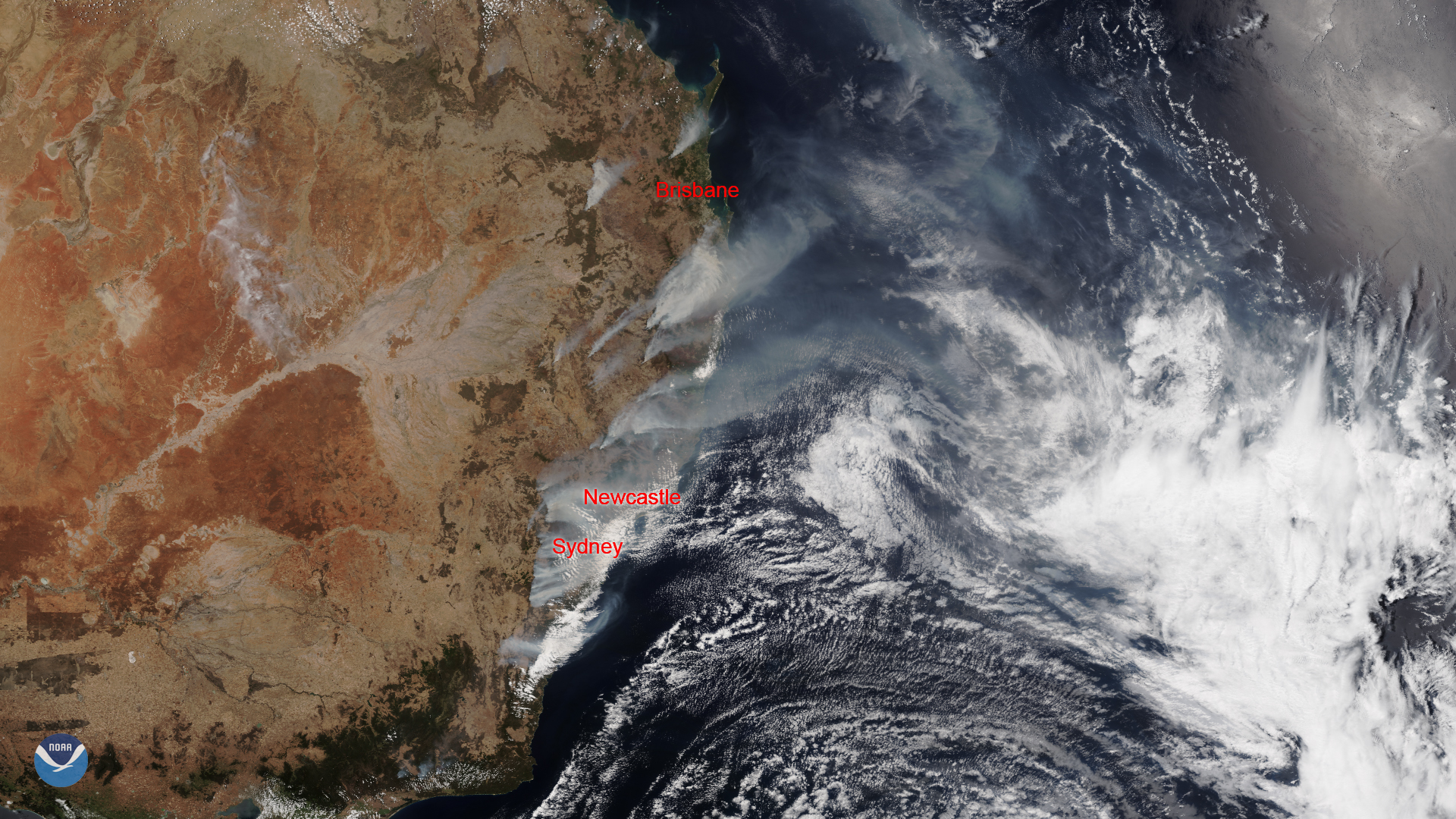 This image was captured by the NOAA-20 satellite's VIIRS instrument, which scans the entire Earth twice per day at a 750-meter resolution. Multiple visible and infrared channels allow it to detect atmospheric aerosols, such as dust, smoke and haze associated with industrial pollution and fires. The polar-orbiting satellite circles the globe 14 times daily and captures a complete daytime view of our planet once every 24 hours.